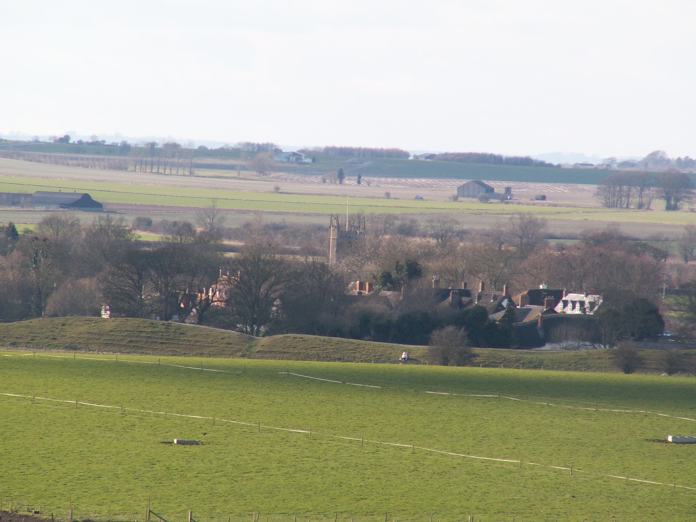 Avebury seen from Windmill Hill, GB, photo by me